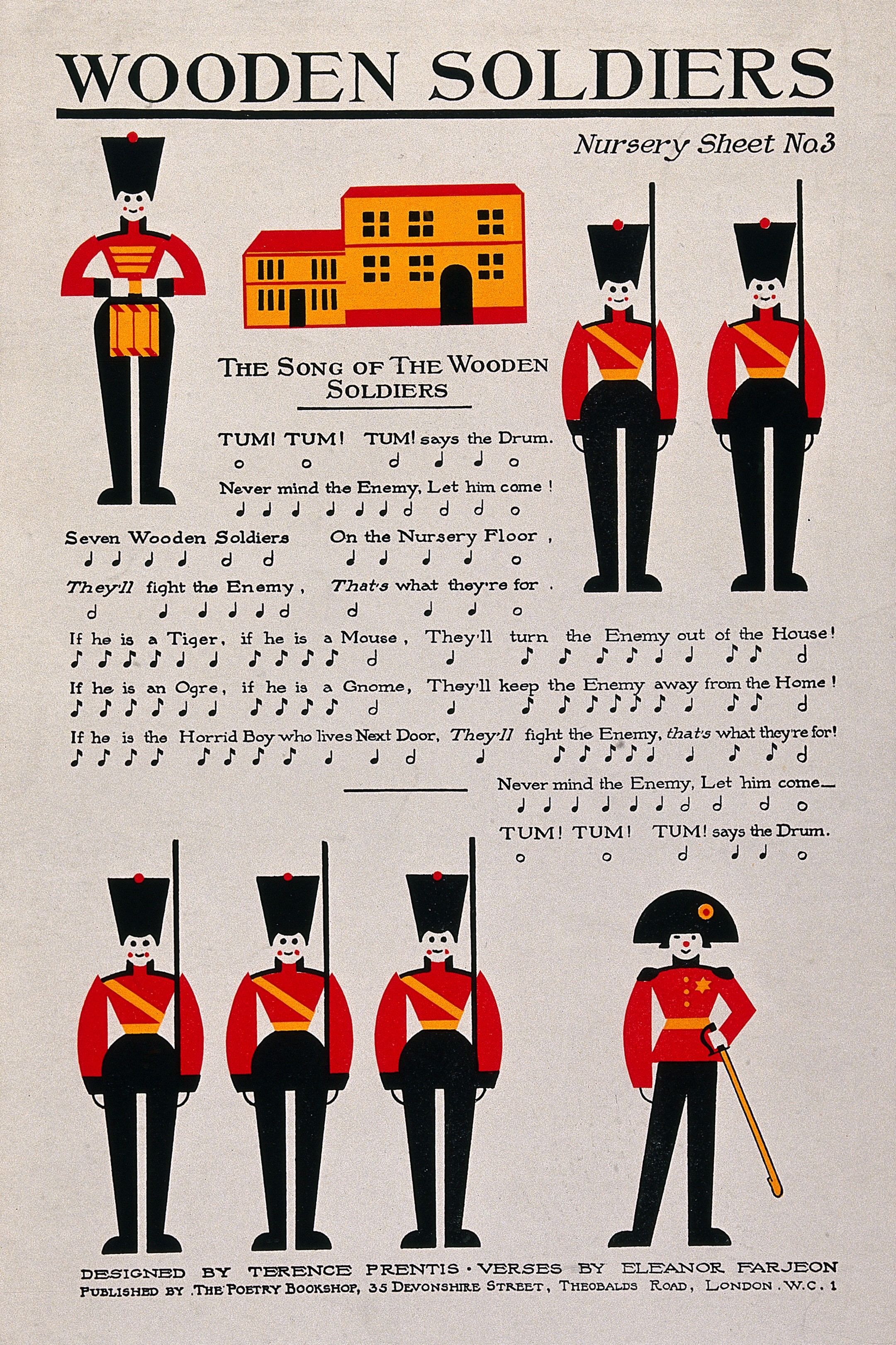 Six soldiers and a captain on a song sheet for children. Lithograph after Terence Prentis. Iconographic Collections Keywords: Eleanor Farjeon